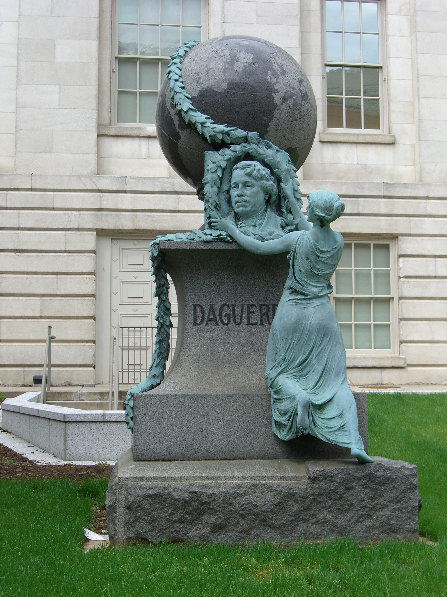 In 1890, the Professional Photographers of America donated this monument to the Smithsonian to commemorate the 50th anniversary of Daguerre's invention of photography in 1839. Sculpted by Jonathan Scott Hartley. This monument is next to the National Portrait Gallery in Washington DC.